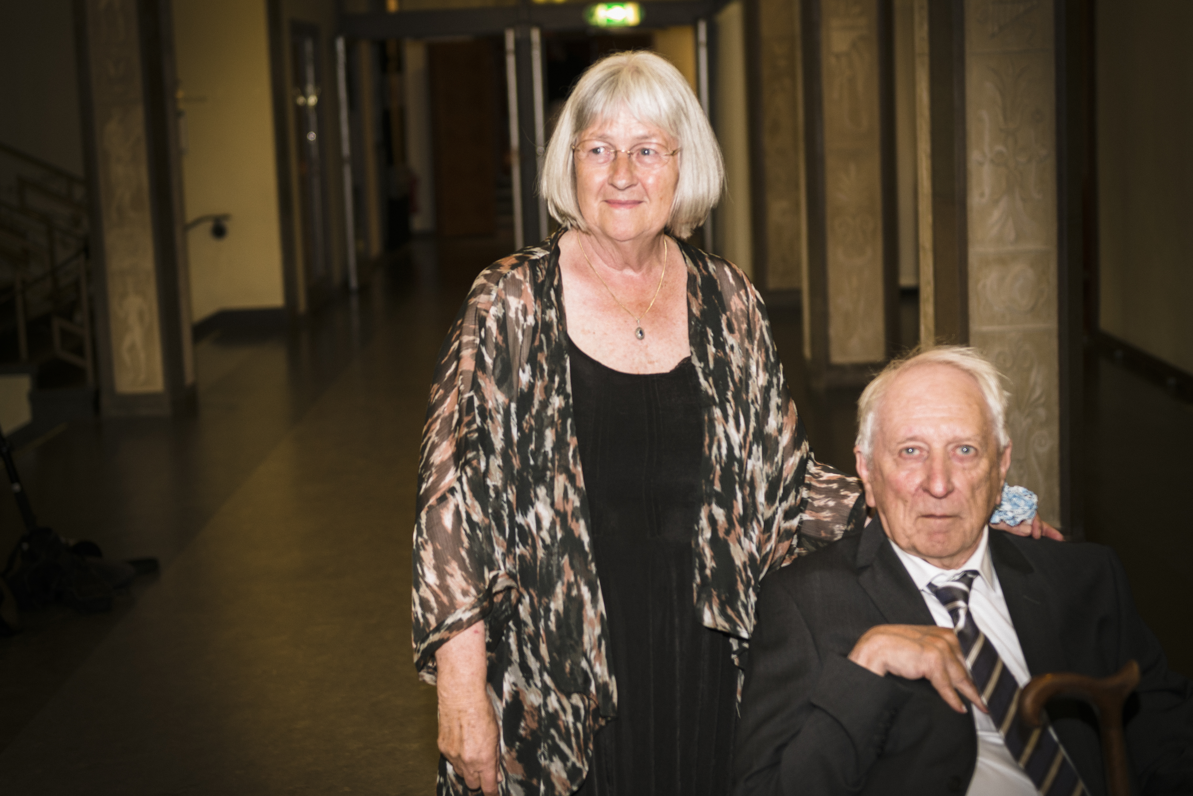 Authors Barbro Lindgren (left) and Tomas Tranströmer at the 2014 Astrid Lindgren Memorial Award presentation.